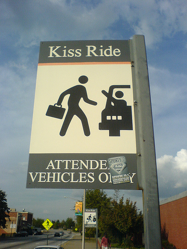 A sign for the "kiss-ride" area (drop-off zone) for Atlanta, Georgia's MARTA rapid transit. The lower text, partly obscured by an ad sticker, reads: "Attended vehicles only." The Official Code of Georgia states that anyone who '[leaves] any vehicle unattended in areas designated as "kiss-ride' or designated as 'attended vehicles only'" will be fined.[1] Larger version available (1224 × 1632) Category:Images of Atlanta